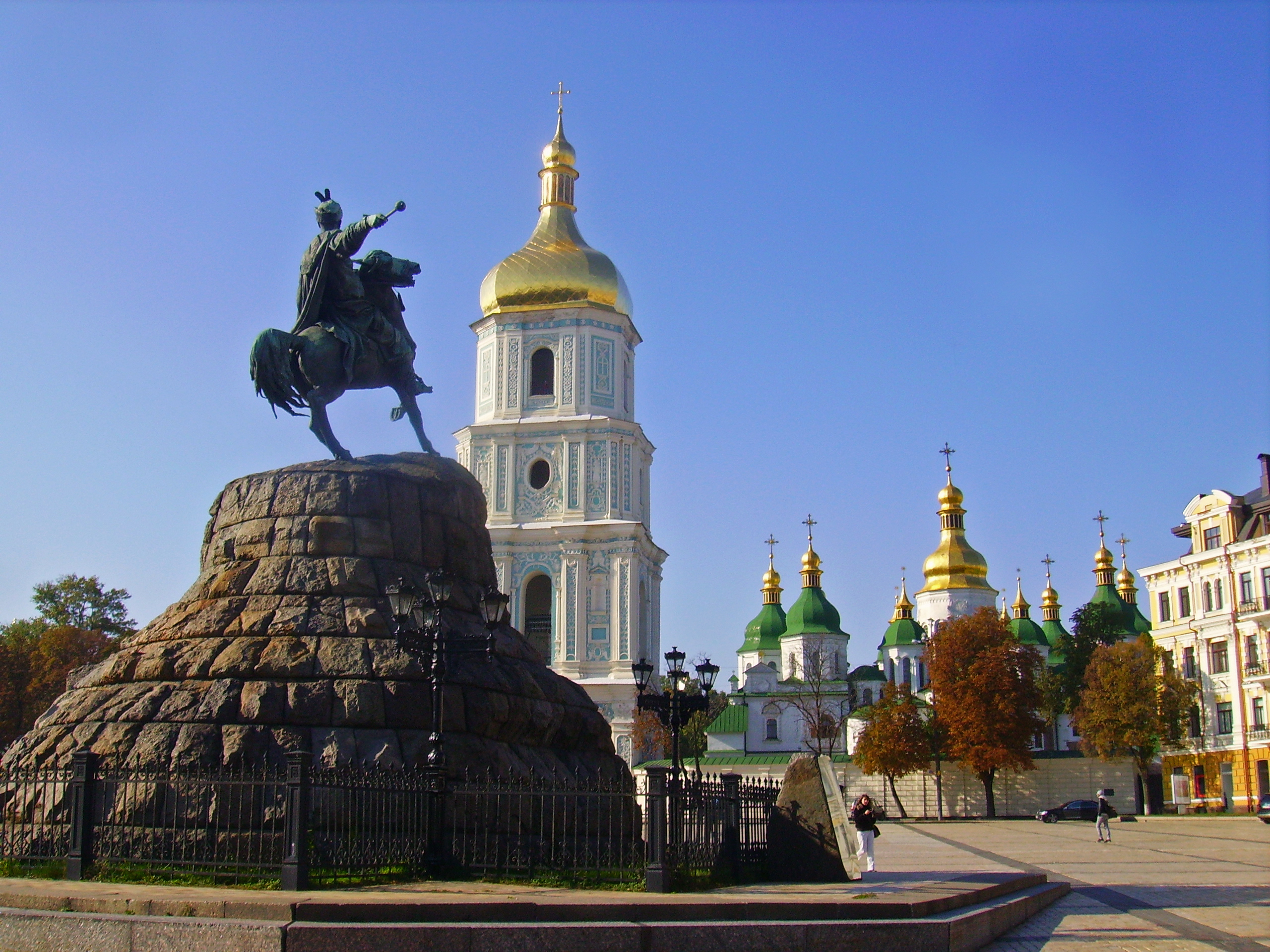 Kiev. Monument to Bogdan Khmelnitsky at Sofiiska Square